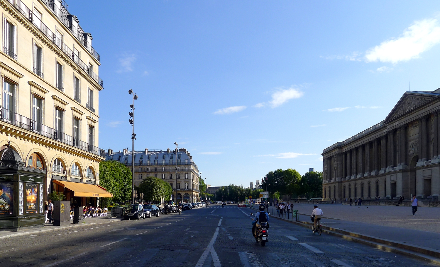 Amiral-de-Coligny street - Paris